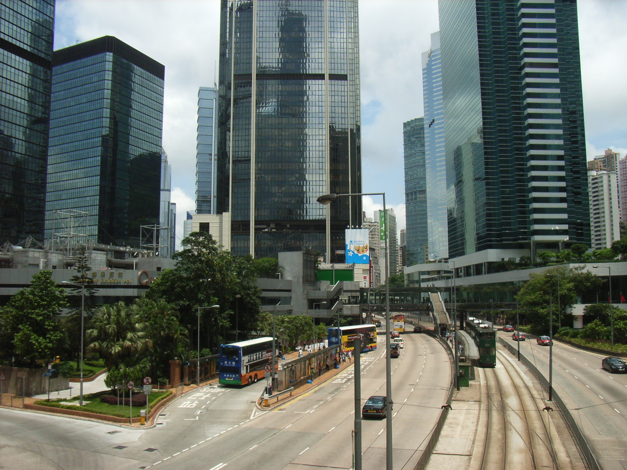 Queensway, HK Island Photo by